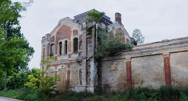 Old railway station in Horgoš, Serbia